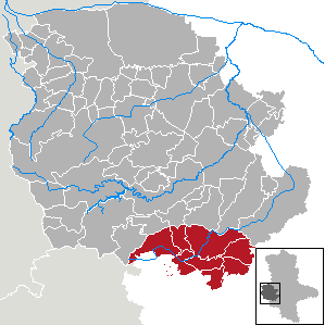 VG Unterharz in Saxony-Anhalt - District Harz